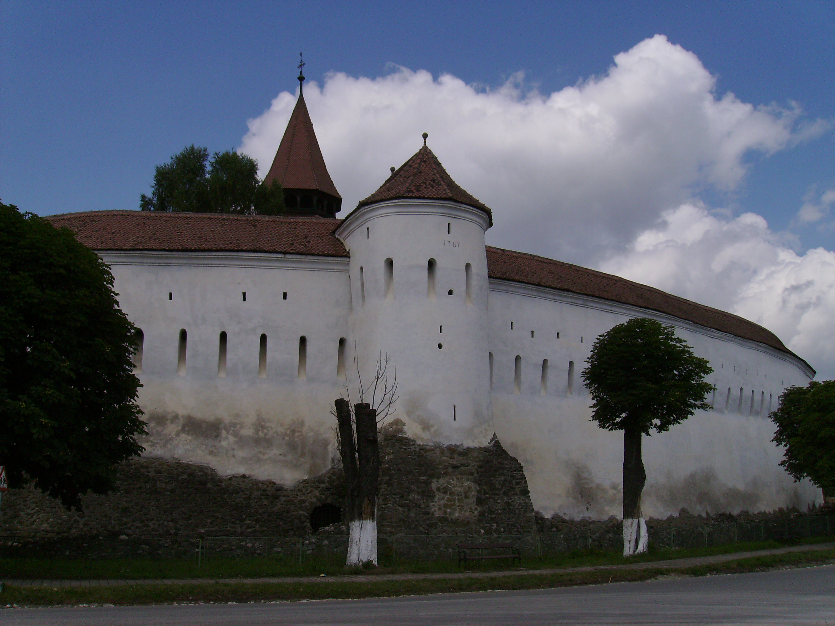 Prejmer, south-east Transylvania, Romania. This fortified church was built by the Teutonic Knights in the early 13th century. As this part of the world was constantly threatened by the Otoman Empire for several century, fortified churches often sheltered the local communities. Some of the fortified churches, like the one in Prejmer, provided rooms for every family in the village - see my "Prejmer II" for these rooms. In peace time, these rooms served as miniatural / secondary barns. That allowed these medieval fortresses to survive till now. South-East Transylvania boasts Europe's densest system of well preserved medieval fortifications. Virtually every village of this region has a fortified church in good shape, let alone ruined strongholds, forts and fortified castles.